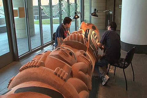 Native American artist David Boxley is from the Tsimshian tribe in Alaska, and he and his son work on one of the many totem poles they have created to keep their native culture alive, at the National Museum of the American Indian in Washington, DC, January 2012.